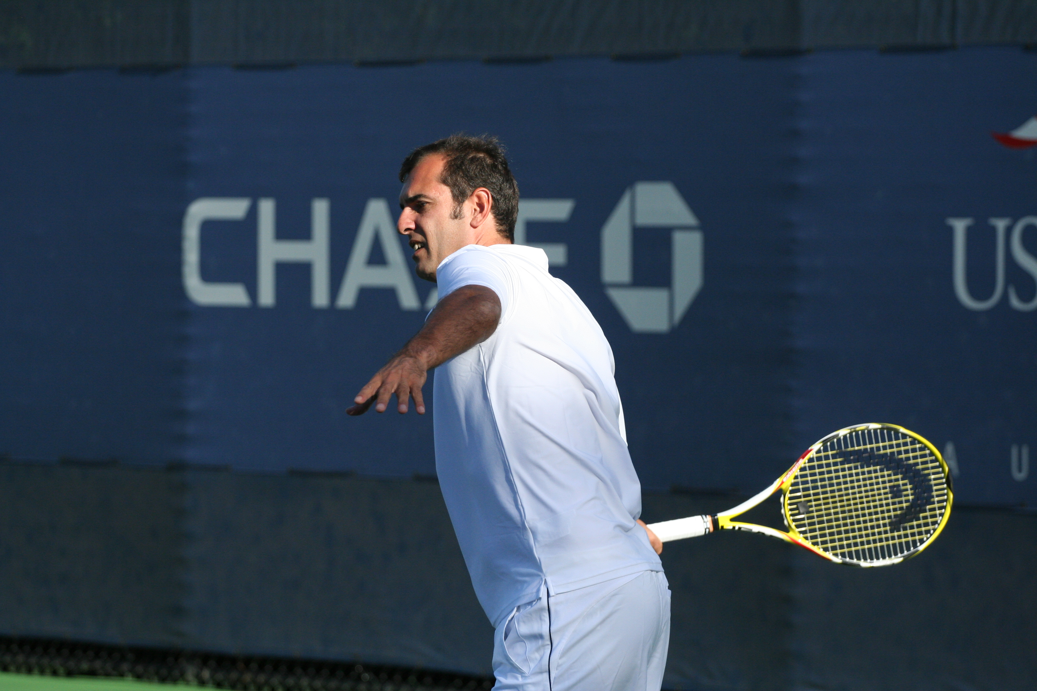 U.S. Open Champions Team Tennis Sept. 8, 2010